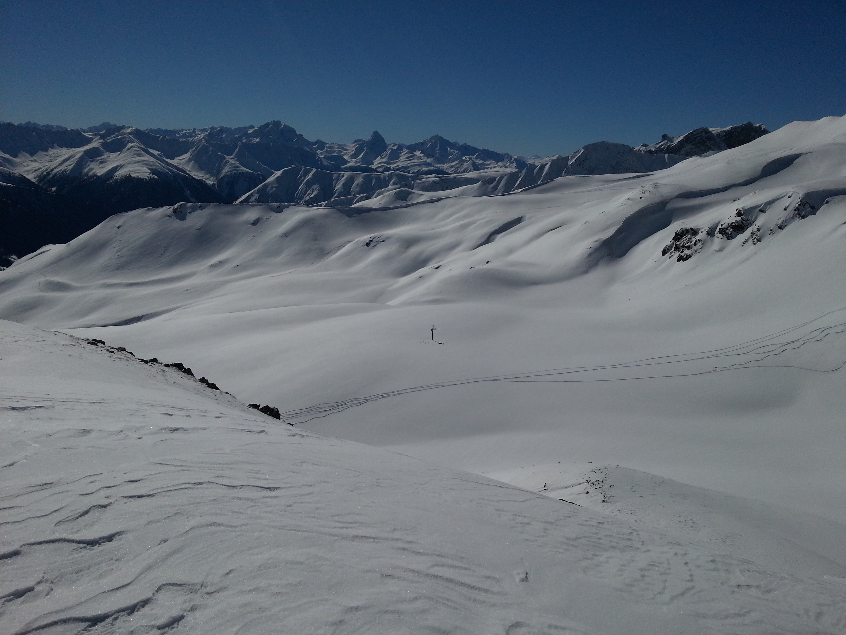 Weather Station near Hanengretji, Davos, Grison, Switzerland Rumantsch: Staziun meteorologica an la vischinanza digl Hanengretji. piglia se digl feil digl nordost digl Hanengretji, Tavo, Grischun, Svizra